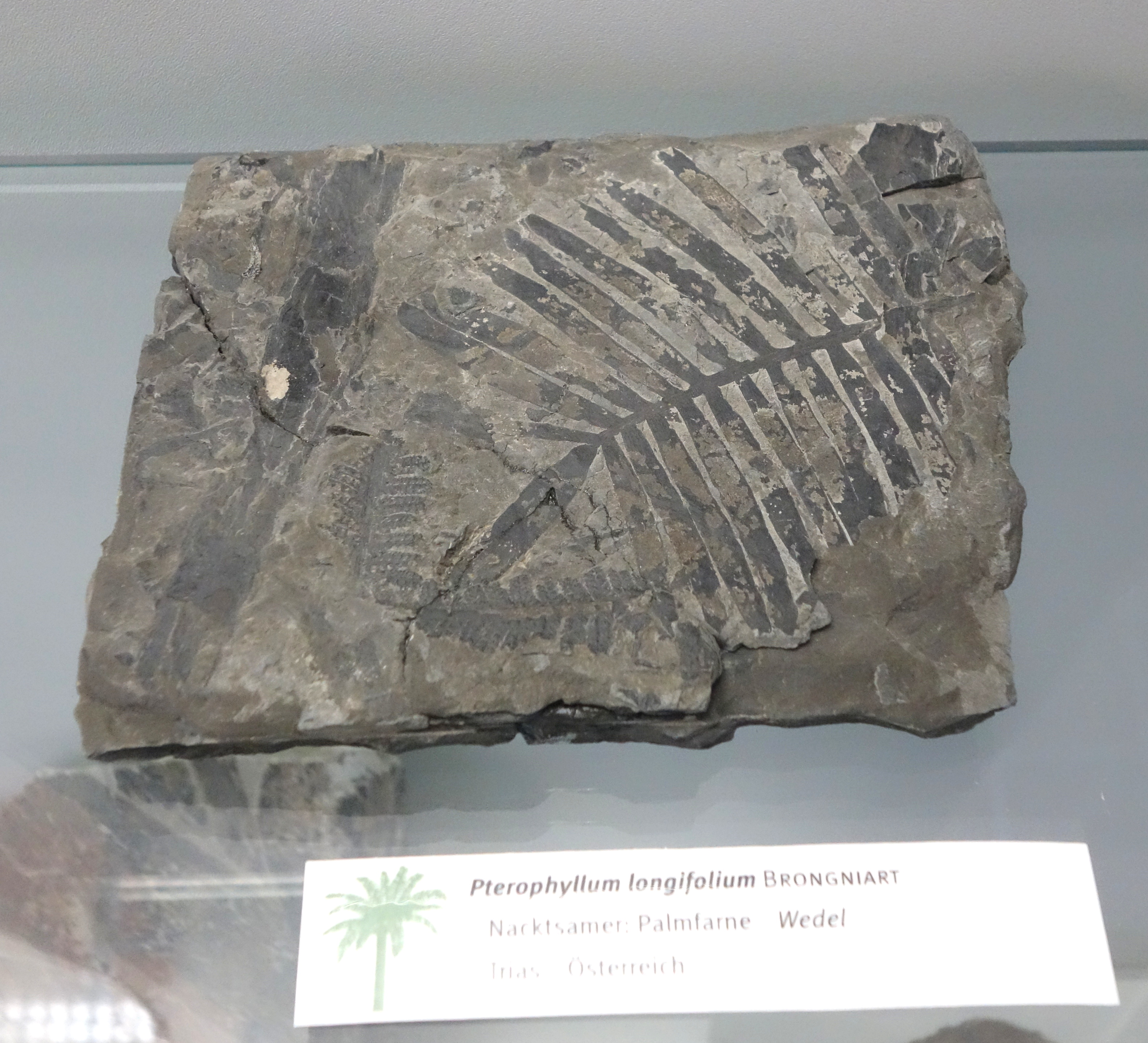 Fossil specimen in the Botanischer Garten, Dresden, Germany. Photography was permitted in the botanical garden without restriction.